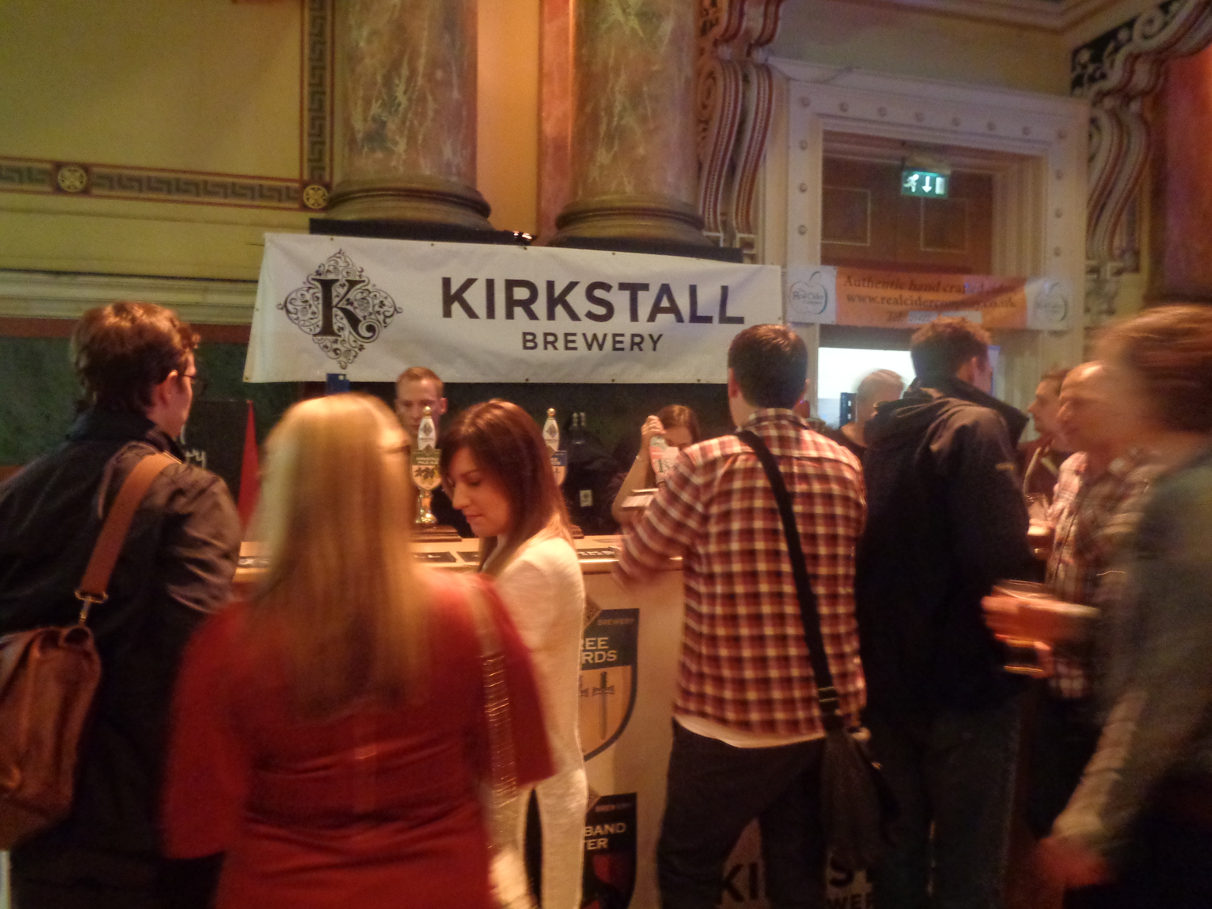 Kirkstall Brewery bar in Victoria Hall at Leeds Town Hall during the Leeds International Beer Festival. Taken on the night of Friday the 4th of September 2015.